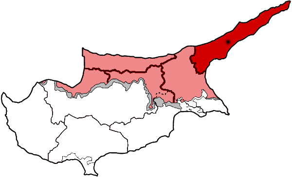 Locator map of Galateia in the current de facto district of İskele (Trikomo) in Northern Cyprus.